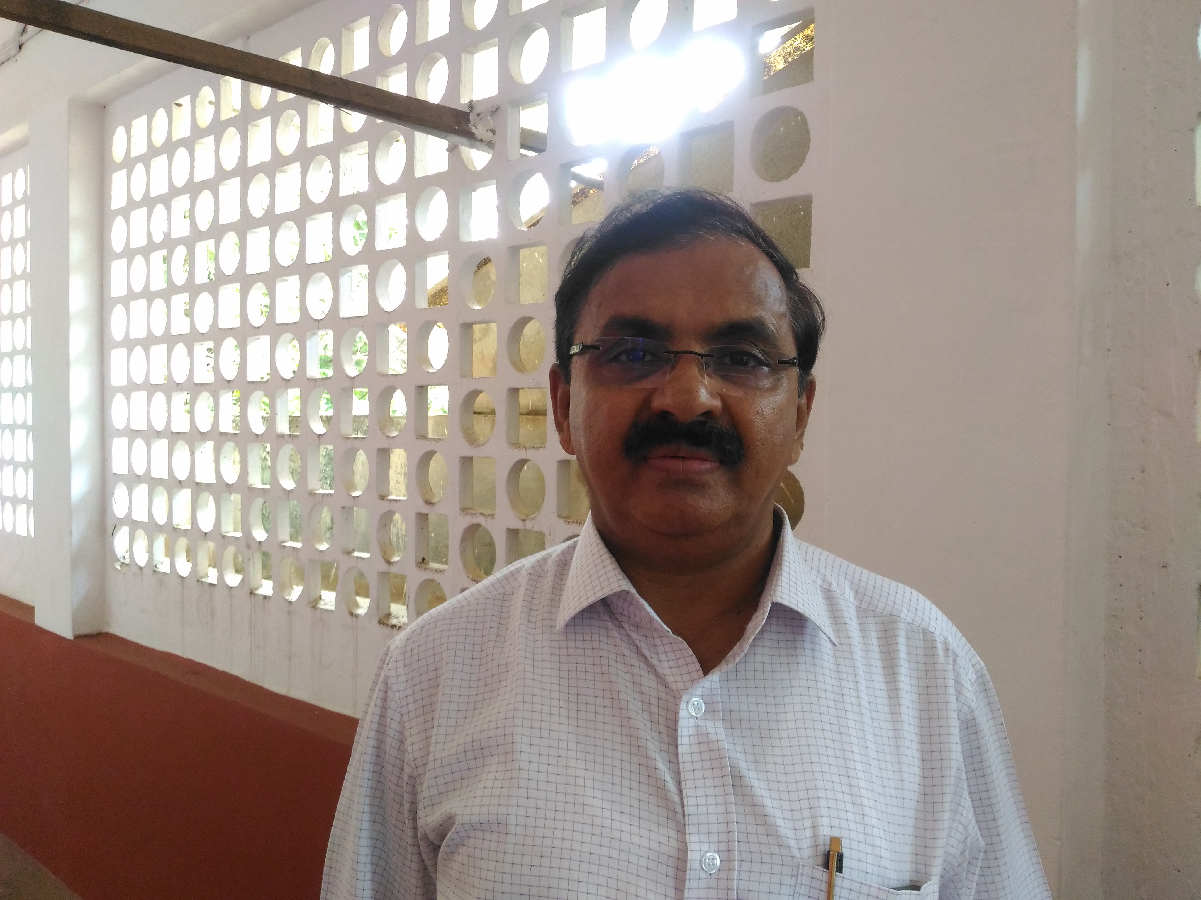 kannada writer cikkanna